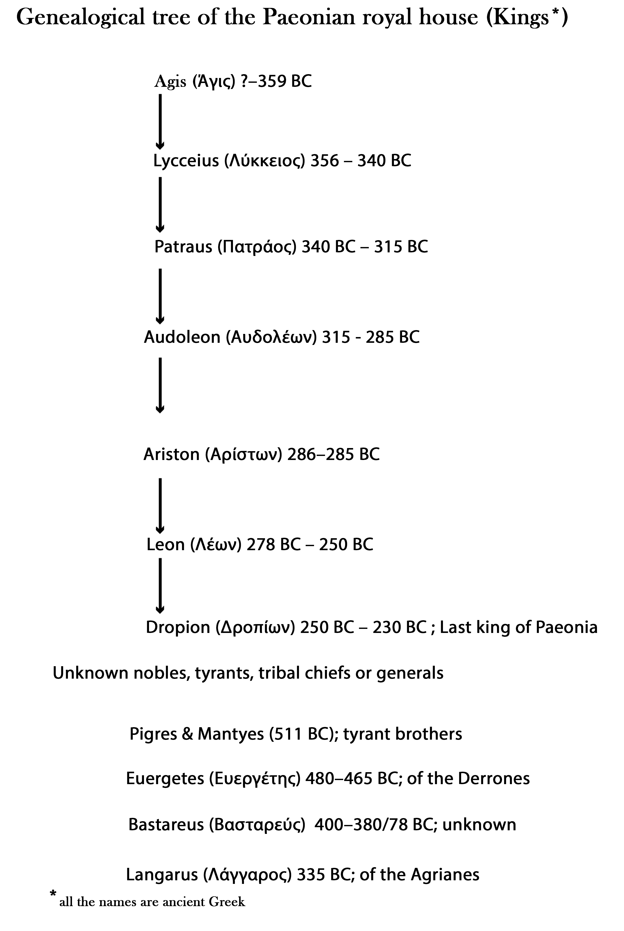 Genealogical tree of the Paeonian royal house